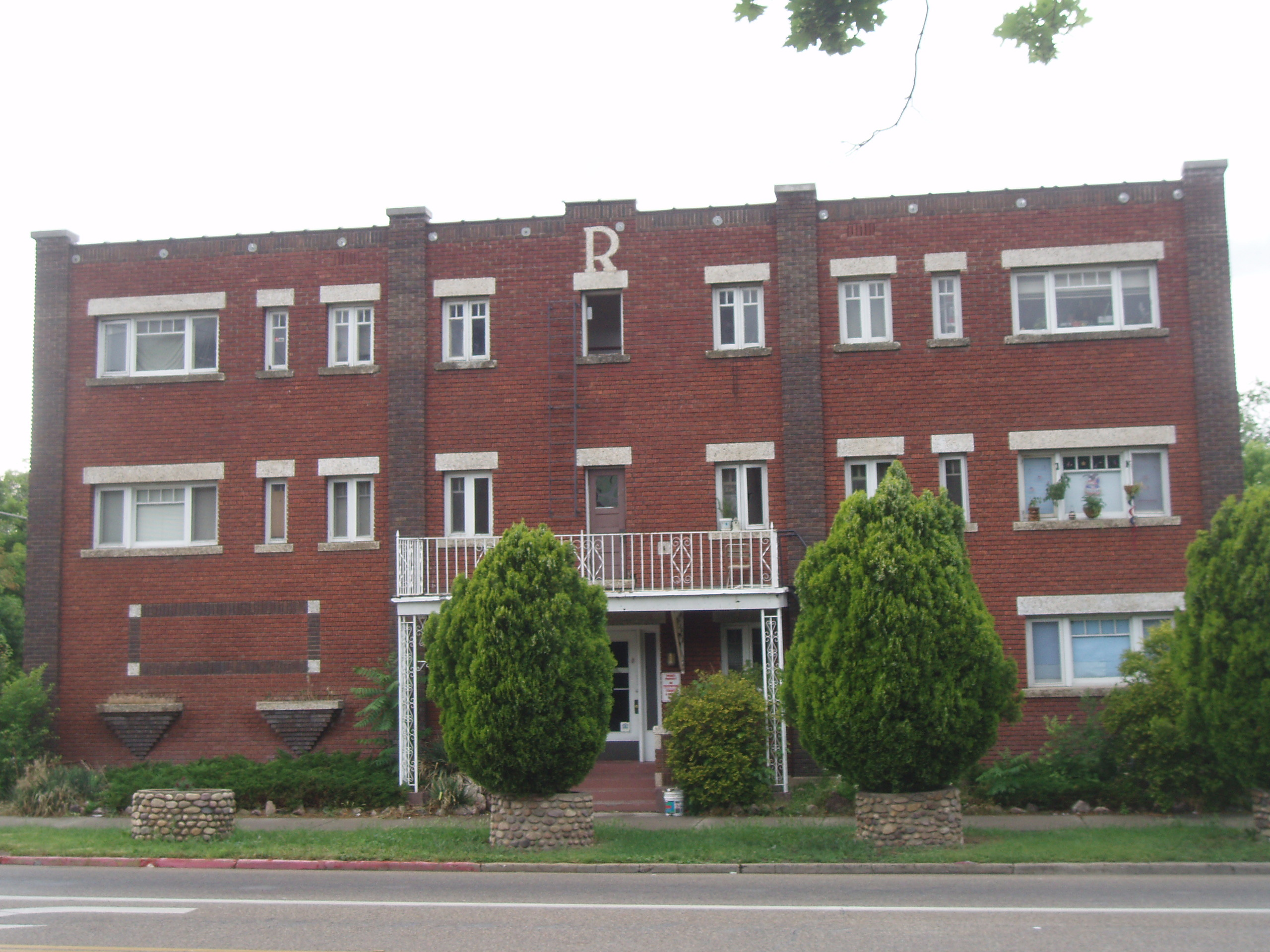 The Hillcrest Apartments, a historic building in Ogden, Utah, United States.